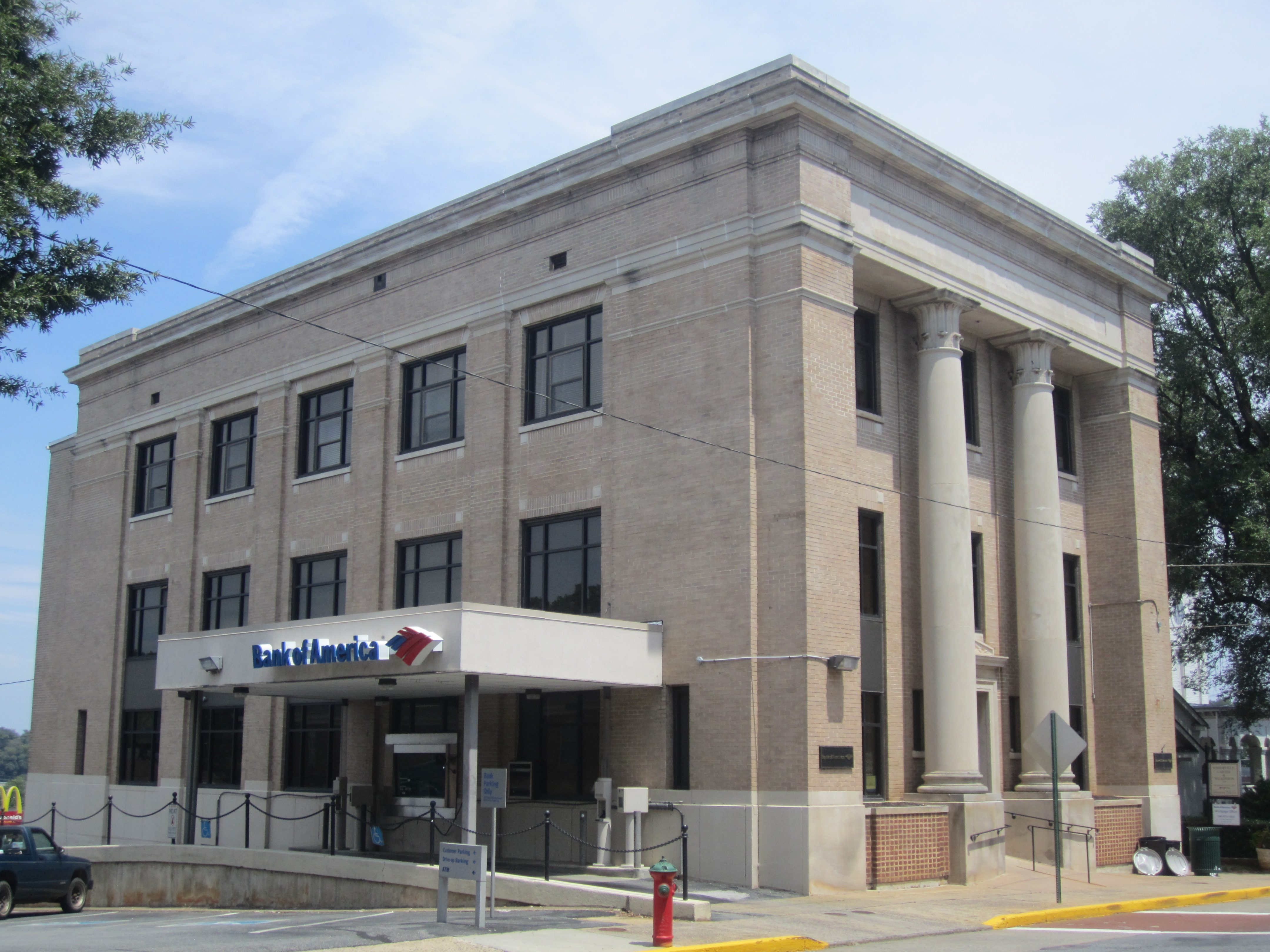 I took photo of Bank of America in Orange, VA, with Canon camera.